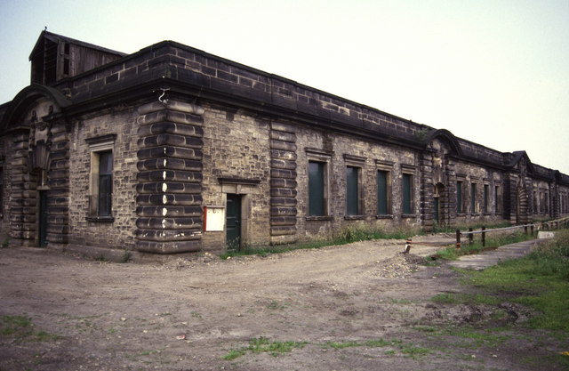 Esholt Sewage Works, press house. Now largely roofless and with lots of holes in the floor.